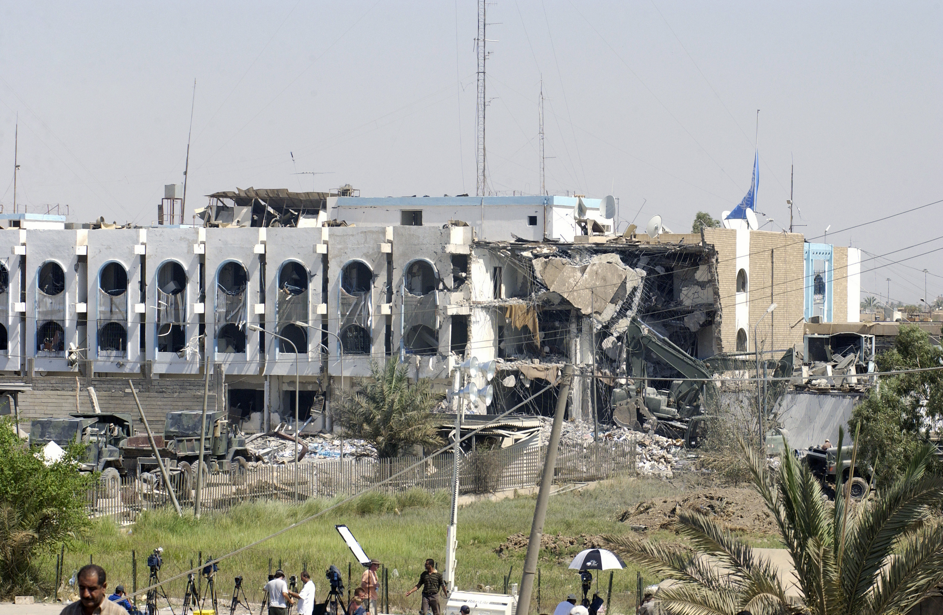 Long shot wide-angle view showing damage to the United Nations (UN) Headquarters building in Baghdad, Iraq, following a suicide truck bombing that destroyed a portion of the building.